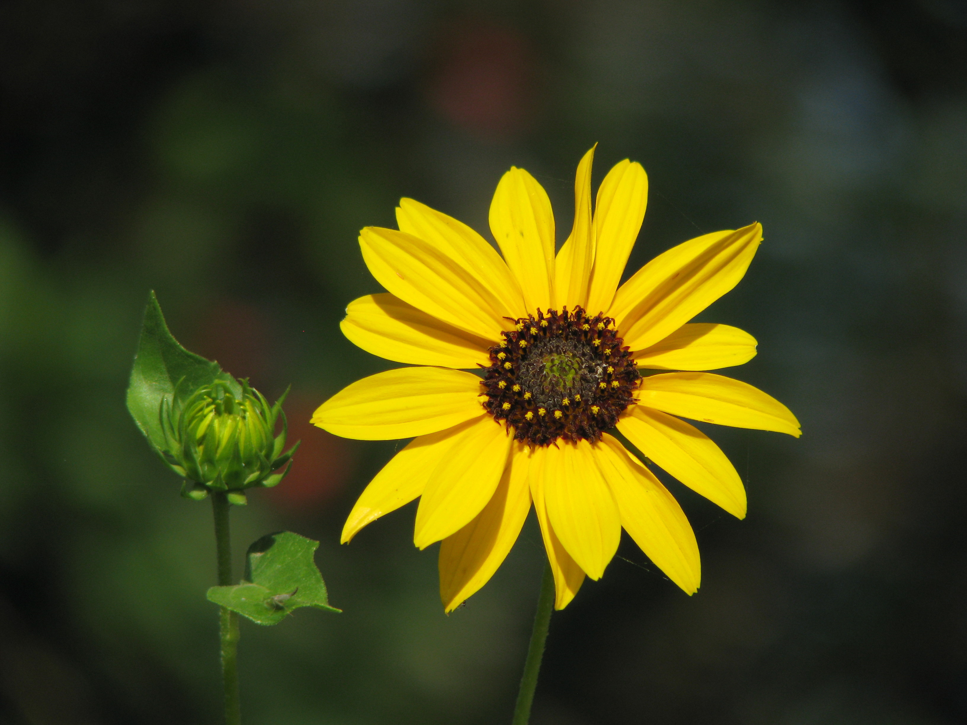 Sun Flower and a bud.